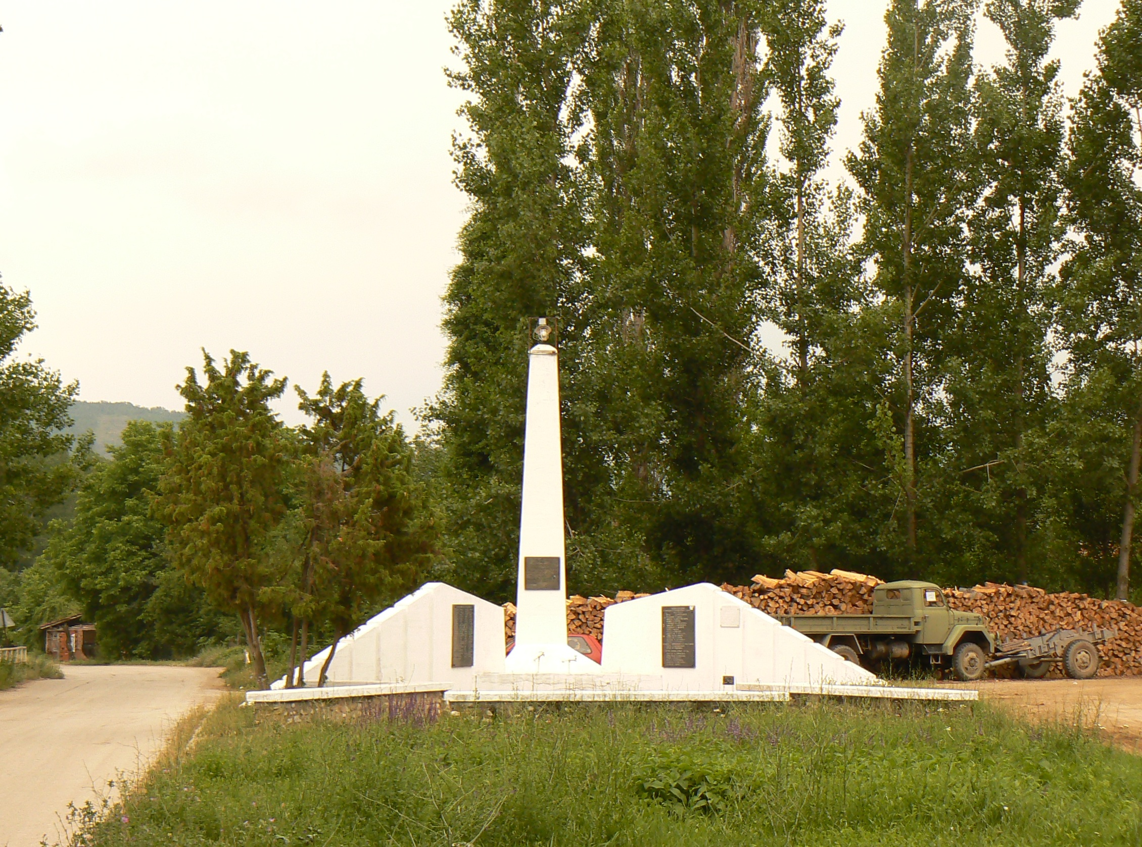 War memorial in village Sukovo, Serbia